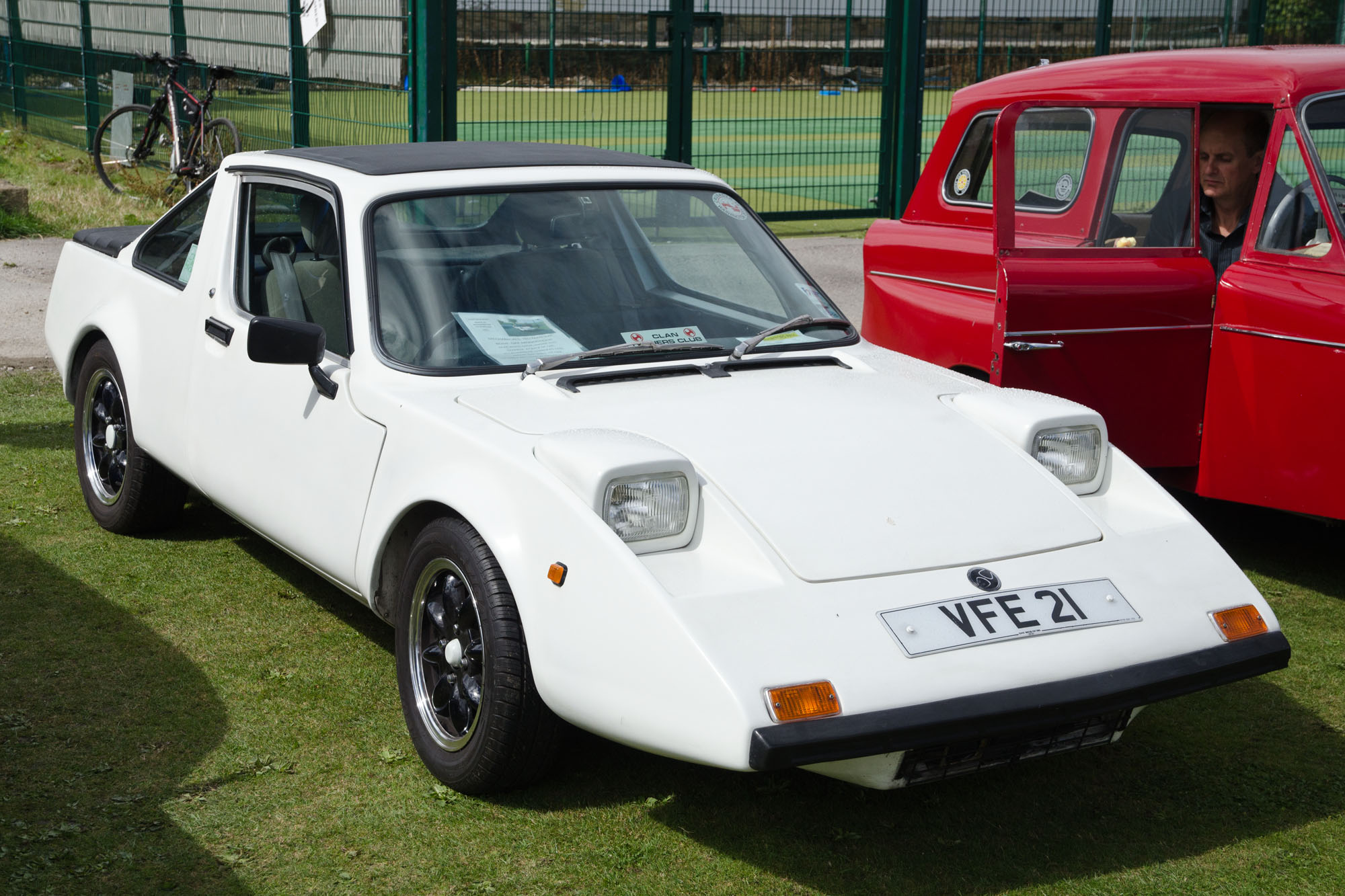 Burley in Wharfedale Classic Car Show 17/08/2014